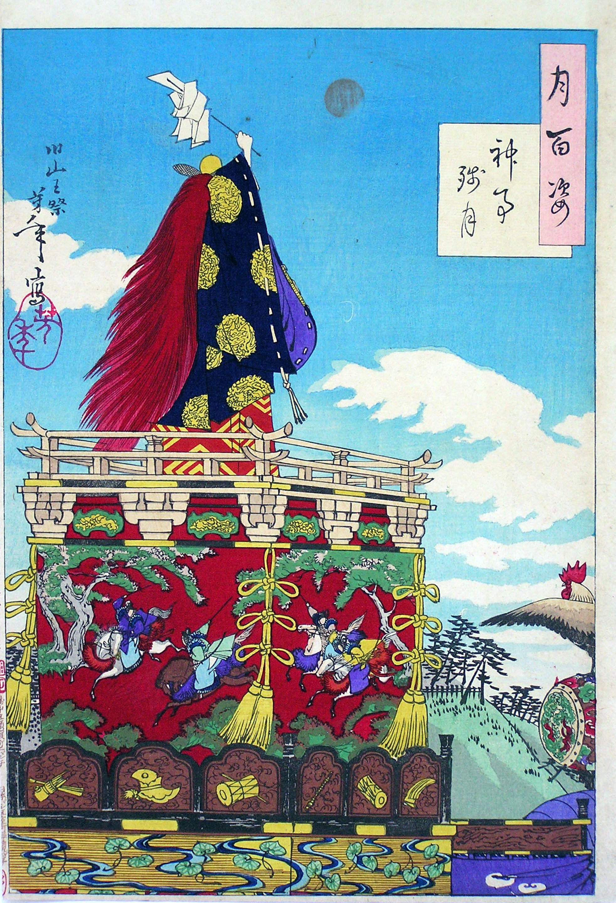 Dawn Moon of the Shinto Rites (Shinji no zangetsu) Publisher: Akiyama Buemon Vertical Oban